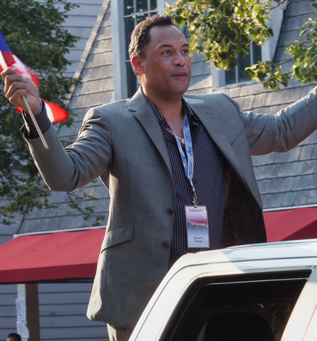 Hall of Fame Induction Parade, July 2011, Cooperstown, New York